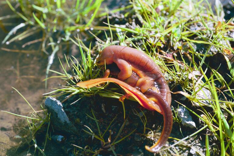 Taricha torosa